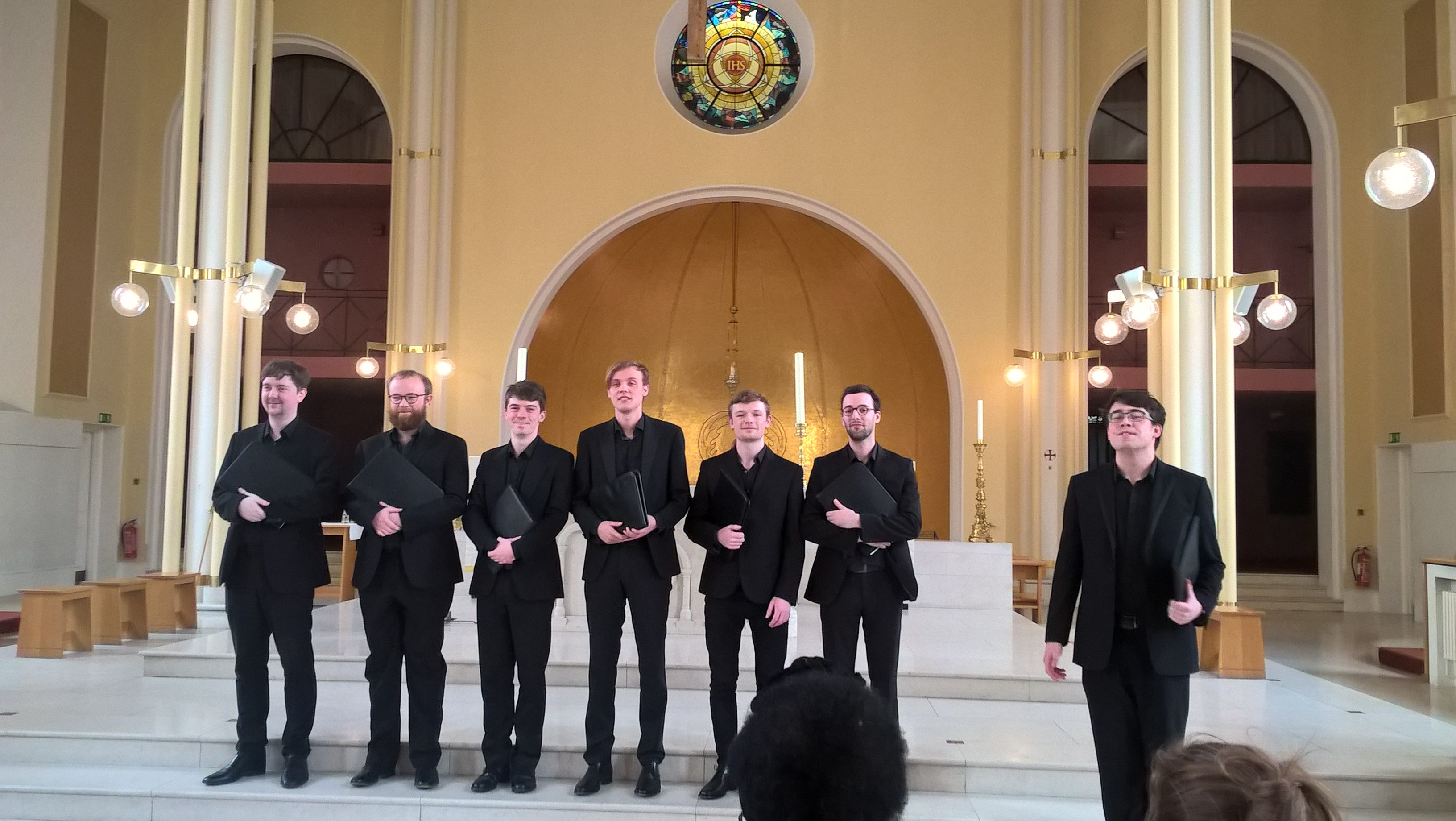 The Gesualdo Six during their first CD launch concert on April 7th 2018. St Peter's Church, Eaton Square, London